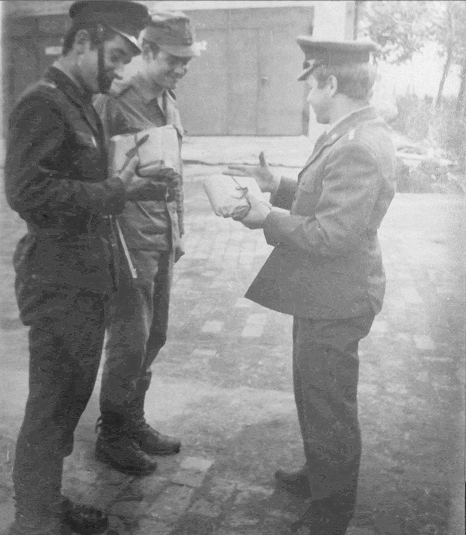 WOP post in Krasne Pole